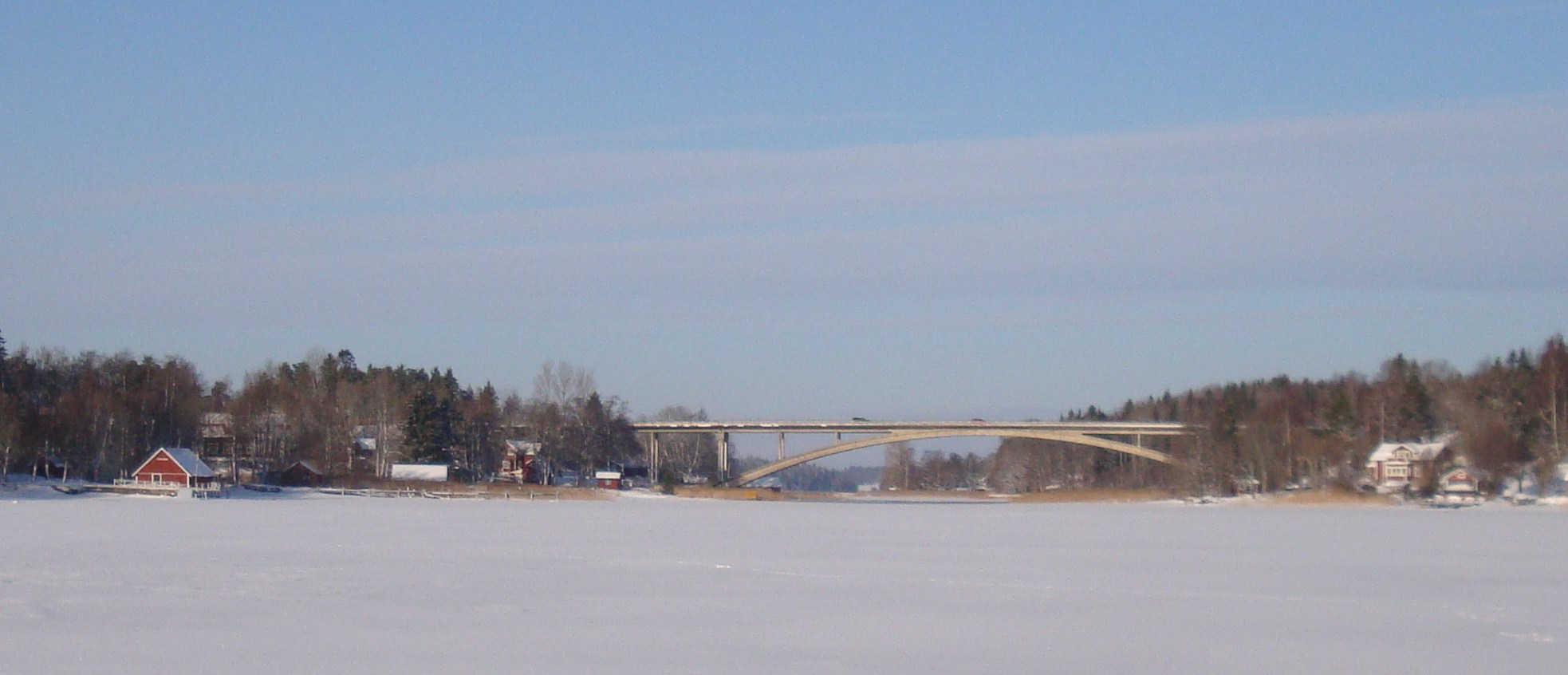 The Vettershaga bridge